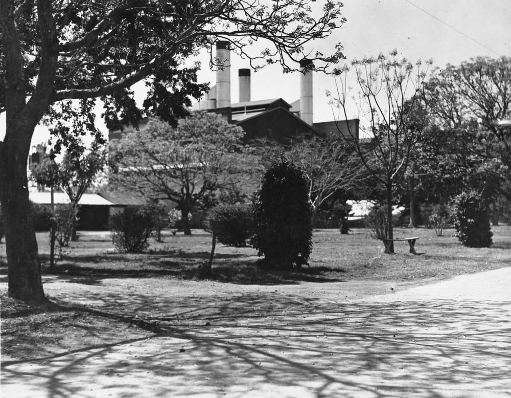 Creator: Unidentified Location: Brisbane, Queensland Description: he Brisbane City Council New Farm Powerhouse was designed by Brisbane City Council Tramway architect, Roy Rusden Ogg and constructed in stages between 1928 and 1940. Built on the eastern riverside point of what is now New Farm Park, the water from the river provided cooling and the rail link supplied coal. View this image at the State Library of Queensland: Information about State Library of Queensland’s collection